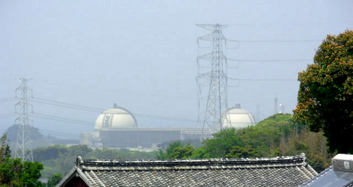 Genkai Nuclear Power Plant